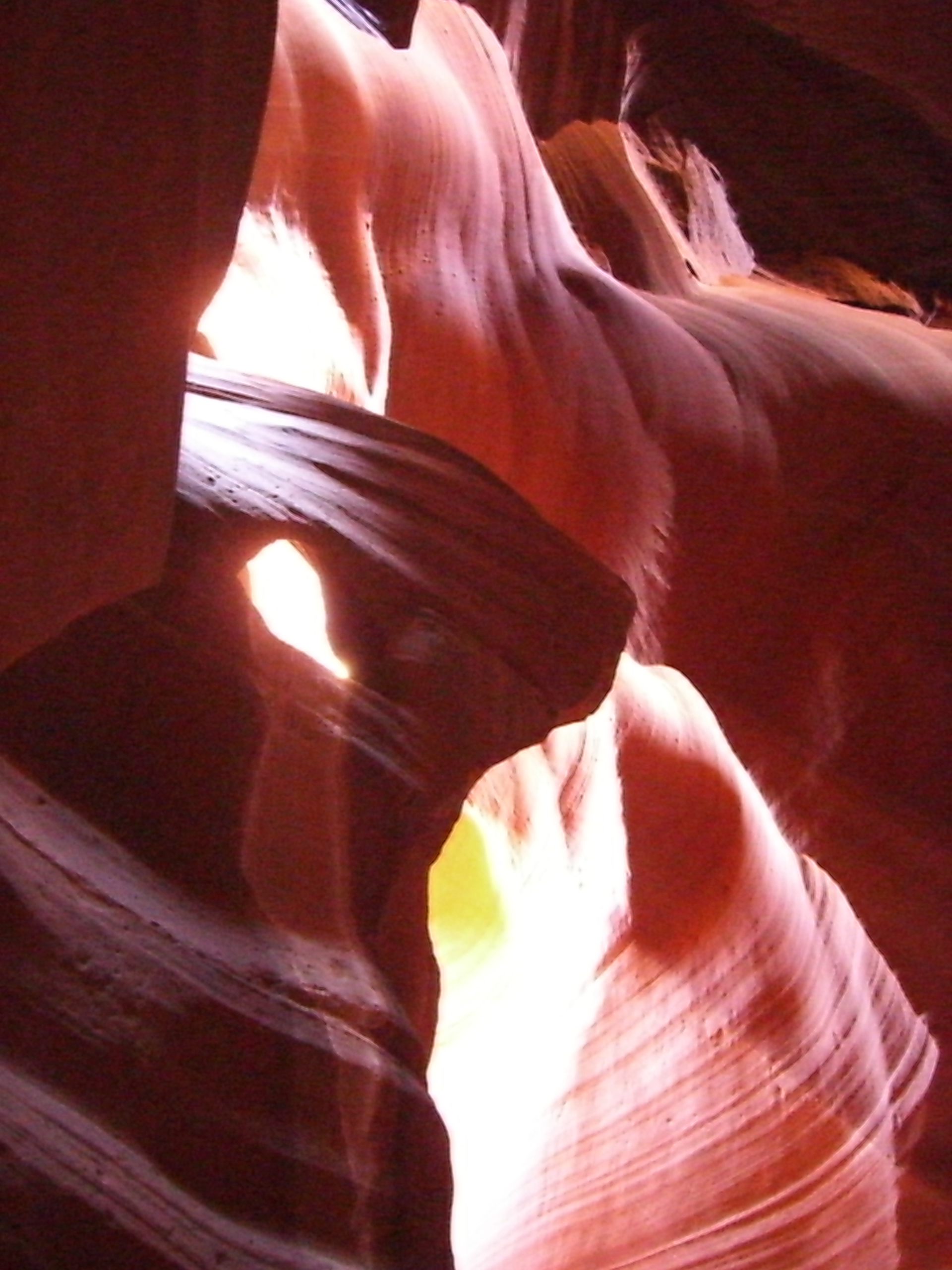 Antelope Canyon, Utah, USA